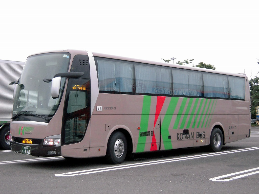 Konan bus Mitsubishi Fuso Aero Queen(BKG-MS96JP)for Highway bus "NOCTURNE"(Goshogawara,Hirosaki - Tokyo,Yokohama)